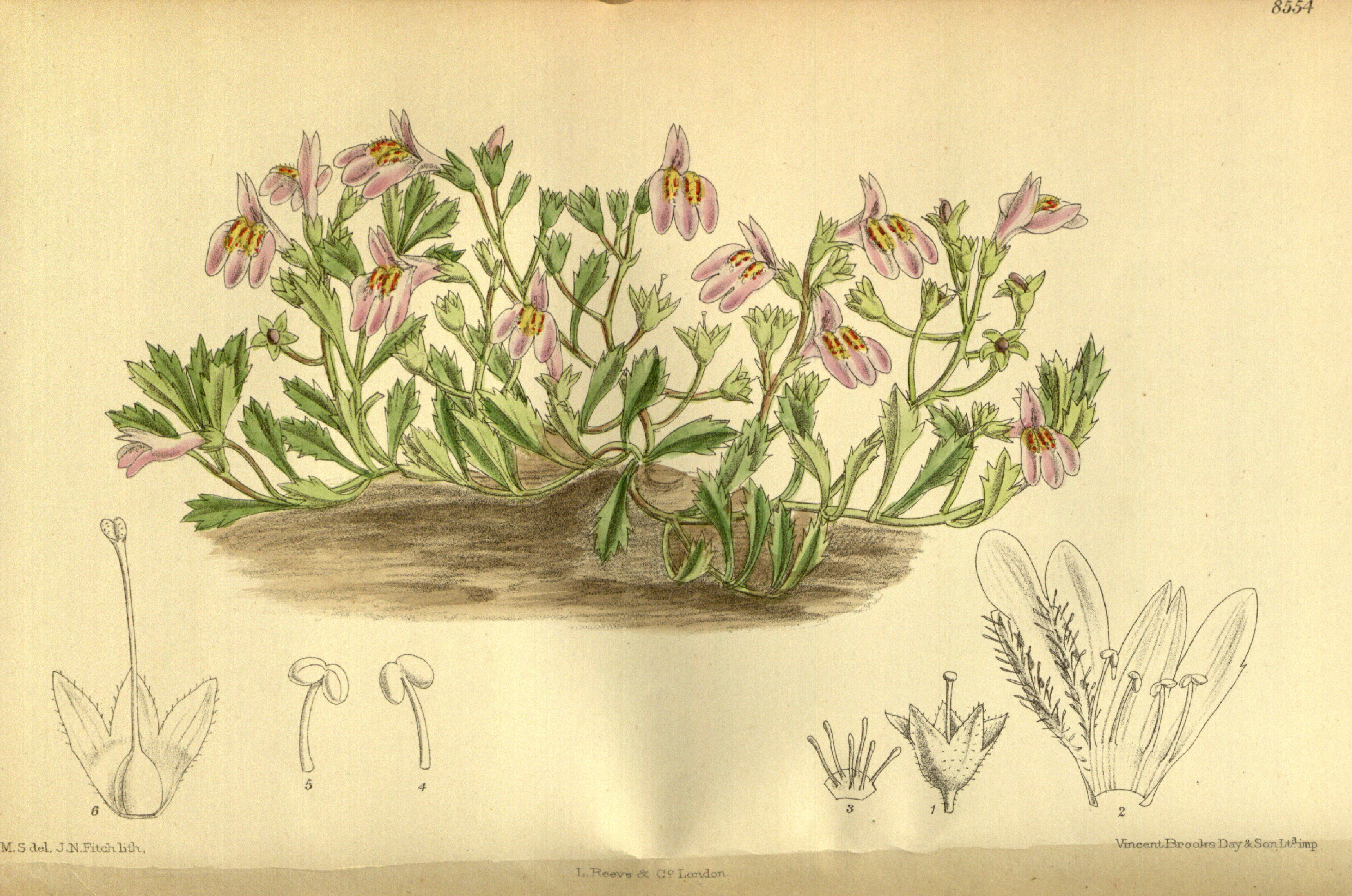 Mazus reptans, Phrymaceae